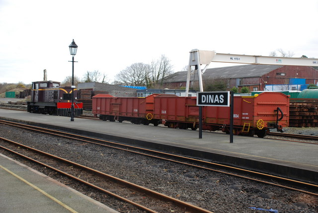 Gorsaf Dinas Station Maintenance locomotive and trucks of Rheilffordd Eryri.